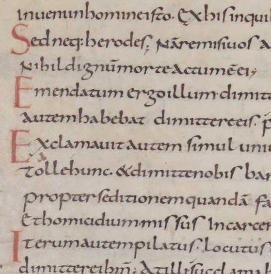 Texte d'une page (folio 160v) tirée d'un livre liturgique carolingien (British Library, MS Add. 11848), écrit en minuscule Caroline. Page of text (folio 160v) from a Carolingian Gospel Book (British Library, MS Add. 11848), written in Carolingian minuscule. Taken from here